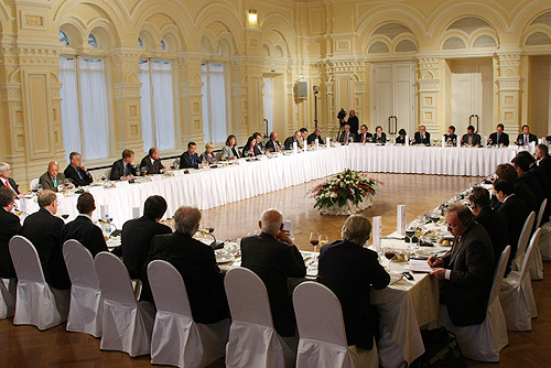 GUM, MOSCOW. Meeting with members of the Valdai international discussion club.